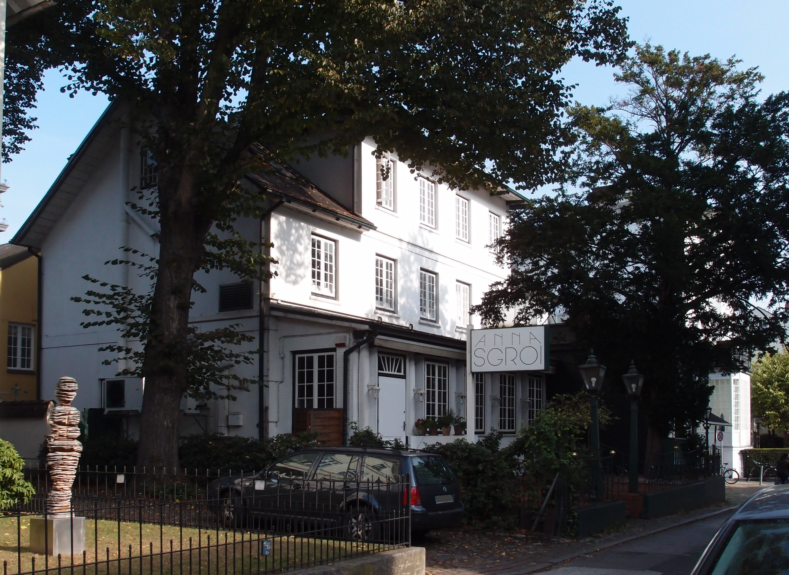 The Anna Sgroi restaurant on Milchstraße 7, Hamburg-Rotherbaum. Operated by Italian chef Anna Sgroi, the restaurant was opened in 2013 and was awarded a Michelin star in the same year. The picture was taken on a Monday, when the restaurant is not open. Non German speaking readers may be interested to learn that while the street name literally translates as “milk street,” it happens to be the German expression for “milkyway.”